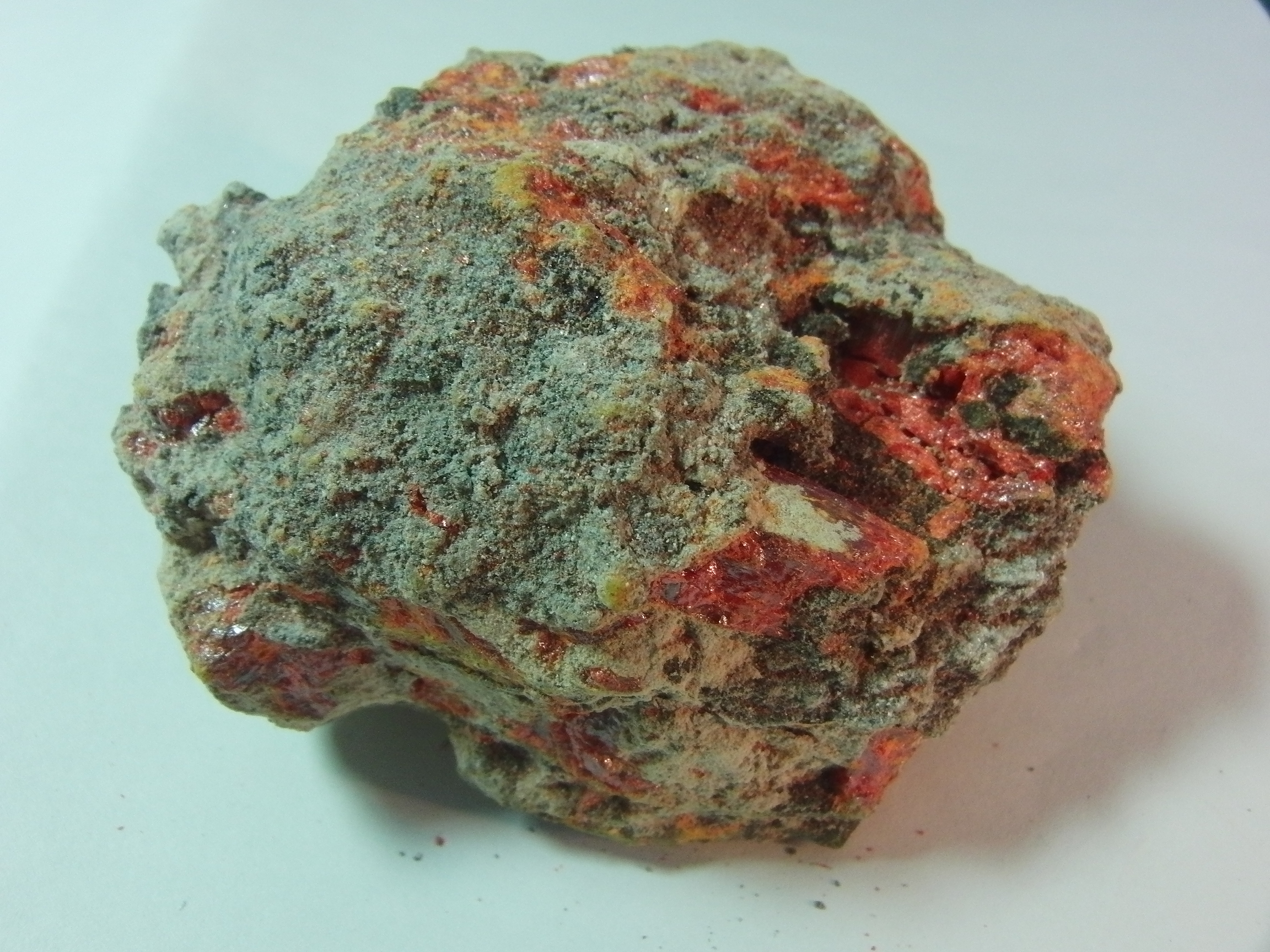 Realgar